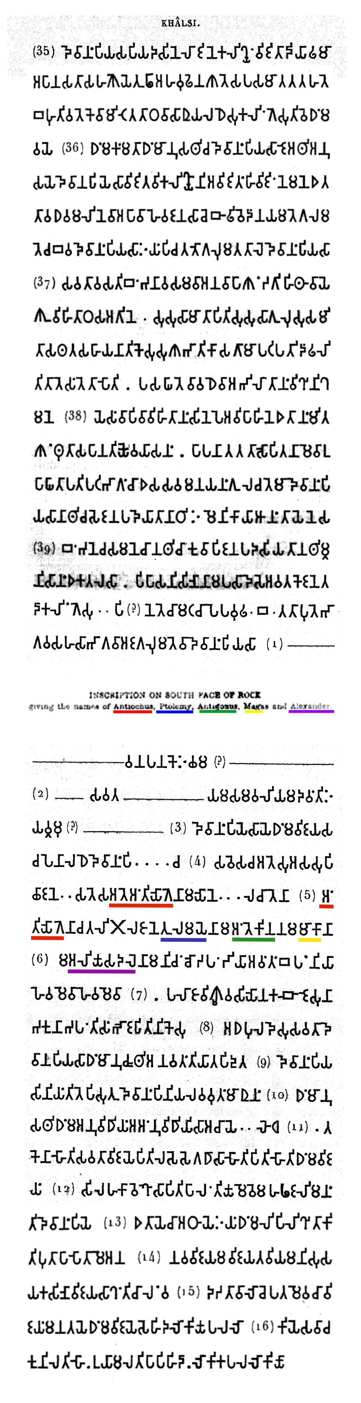 Ashoka Edict 13 at Khalsi